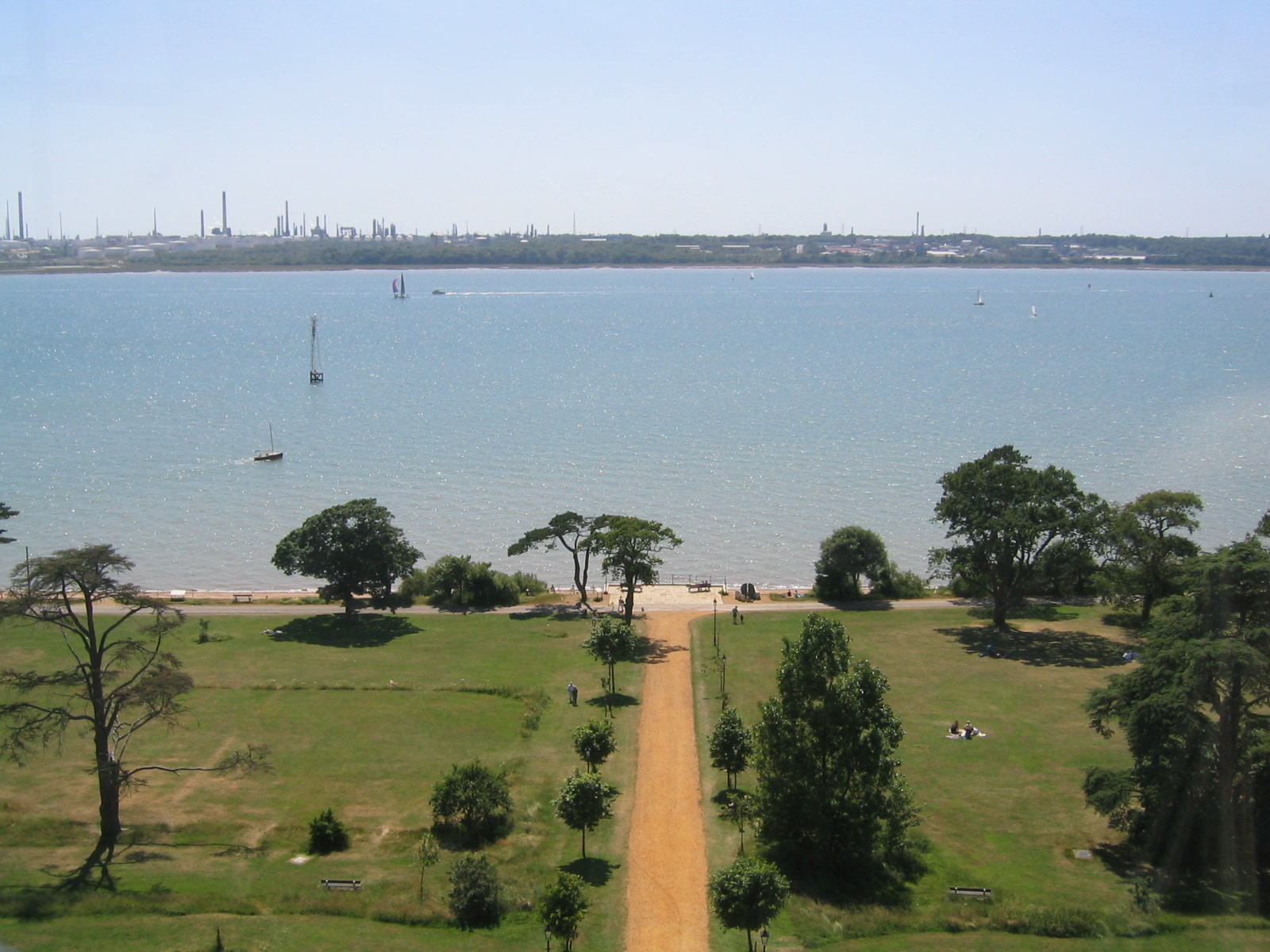 View west from Netley Hospital chapel tower, Royal Victoria Country Park, Netley, Hampshire, UK. View is across Southampton Water towards Hythe. Photo taken by me 2003-06-20.